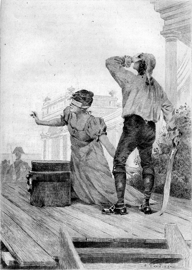 Title page of Honoré de Balzac's The Executioner (1831).